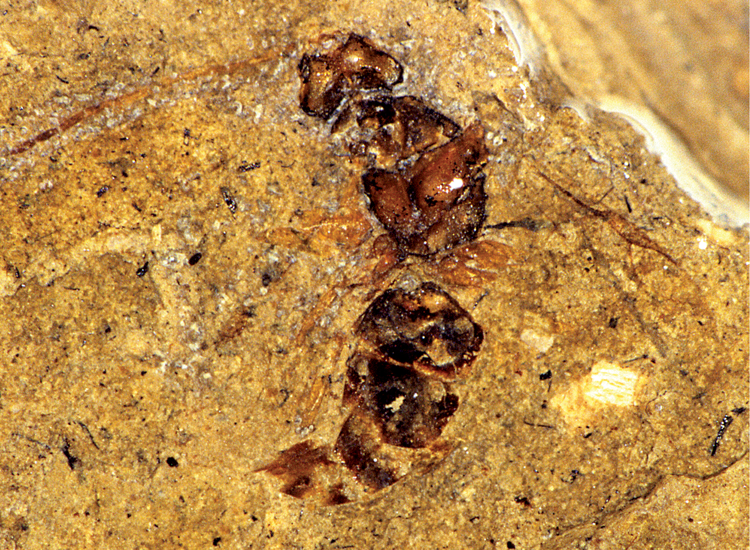 Deinodryinus ? aptianus. Female holotype (from Olmi et al. 2010). Length 6.2 mm.